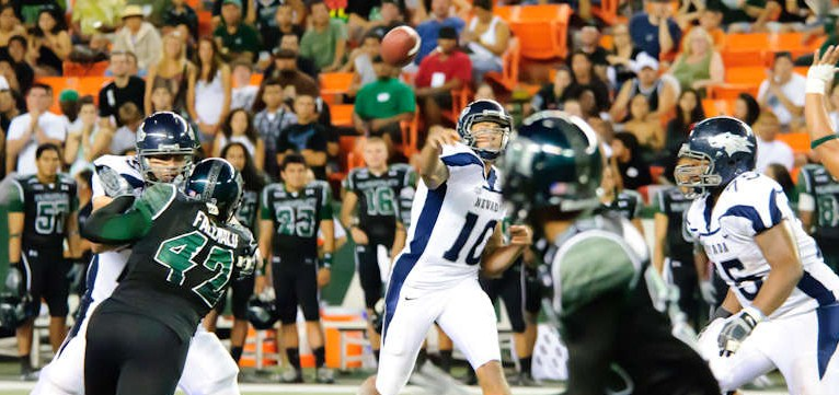 Colin Kaepernick passing the ball during a game against Hawaii in October 2010. (Cropped frame out)